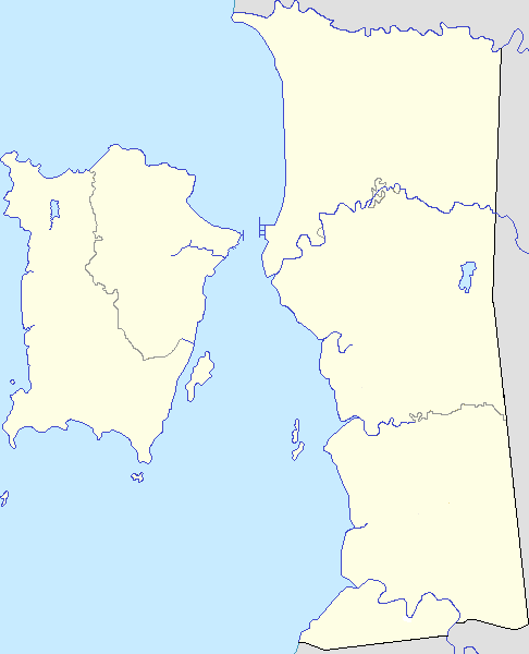 Location map of Penang Geographic limits of the map: N: 5.5859° N S: 5.1224° N W: 100.1720° E E: 100.5510° E